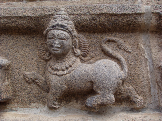 Photo of purushamriga or Indian sphinx depicted on the Varadaraja Perumal temple in Tribhuvanai, India. The author uploads this image and gives permission for its free use provided the image is attributed to the author. This is an edited version of photo made with digital camera.